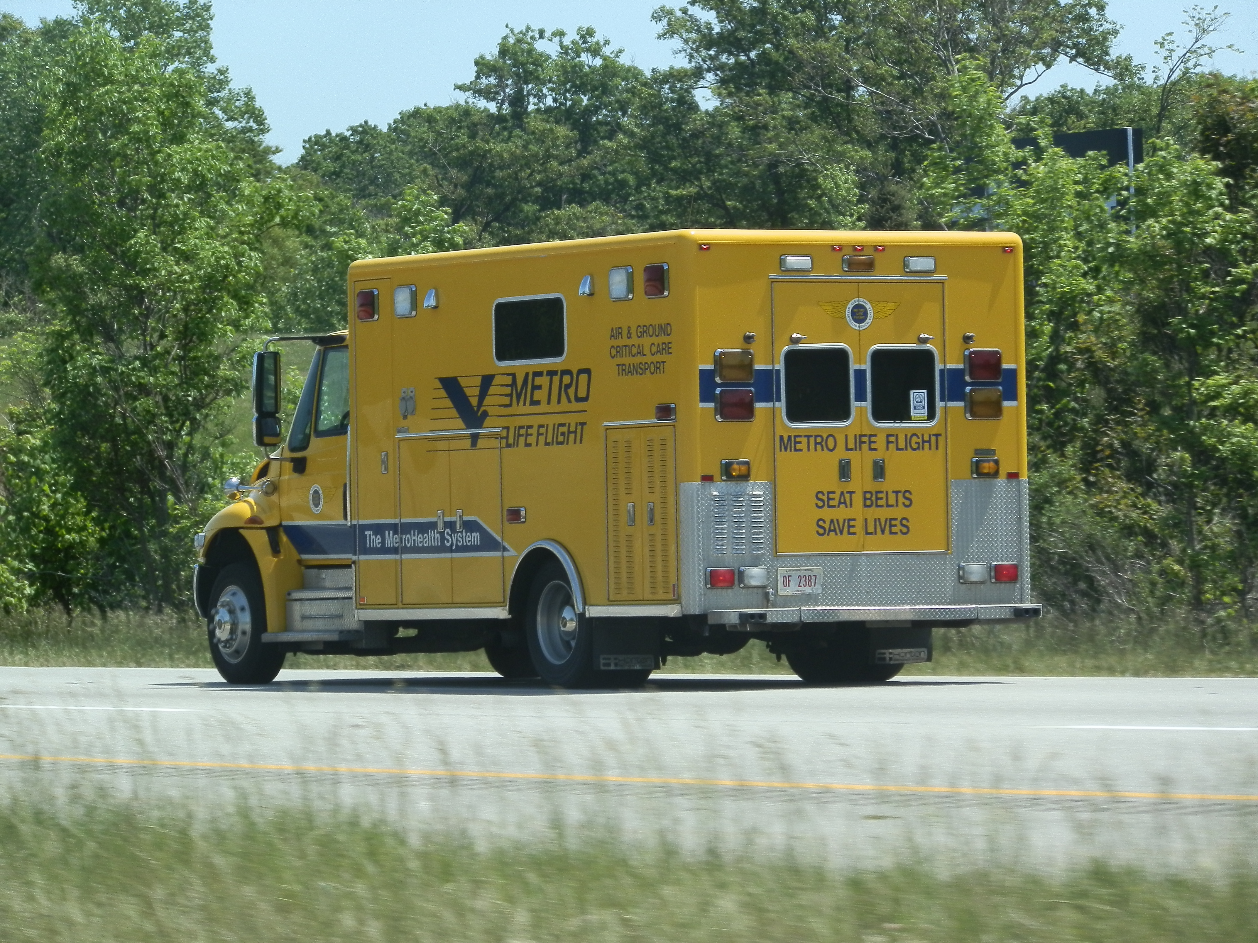 Metro Life Flight ambulance in Cuyahoga County, Ohio